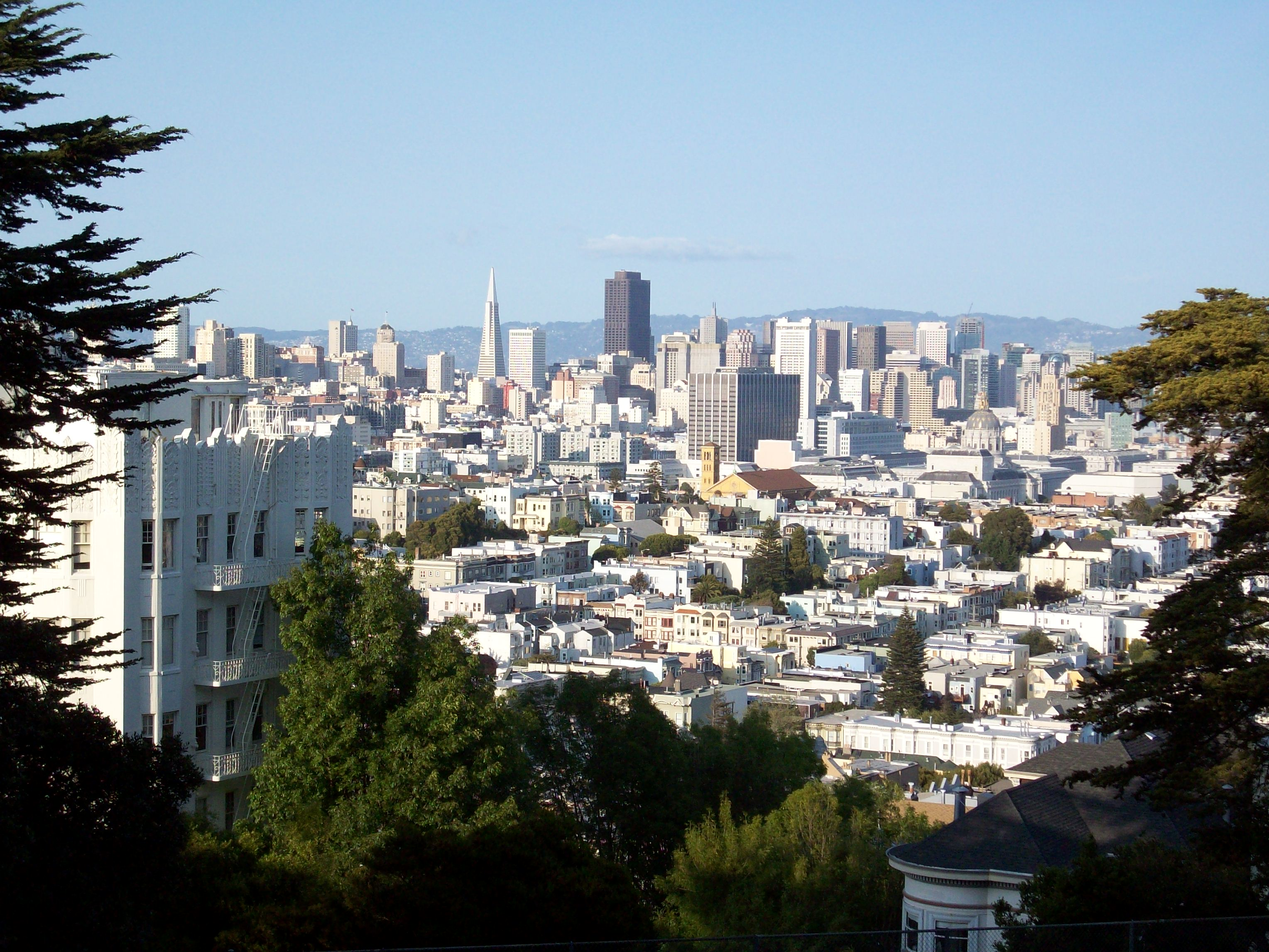 View of San Francisco as seen when looking east/north-east from Buena Vista Park (over Buena Vista Ave)